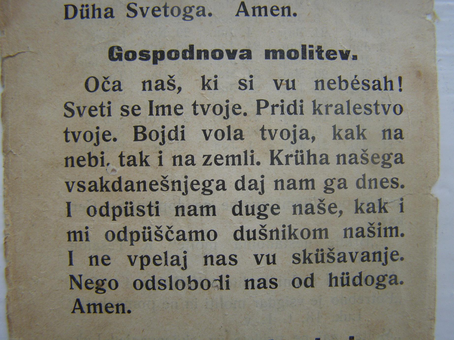 Prekmurian Lord's Prayer/Oča naš (1914)